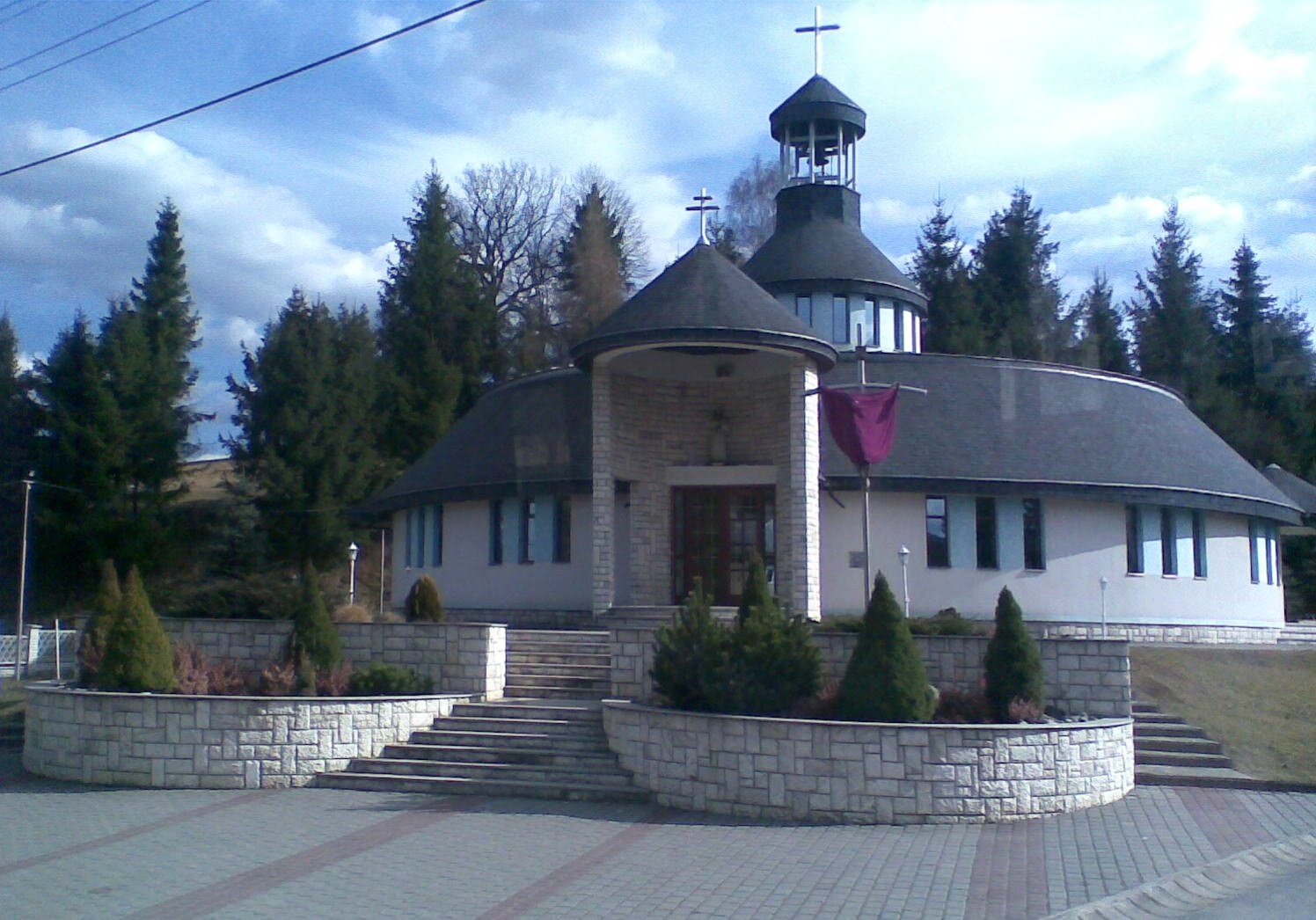 Roman Catholic church in the village Malcov (Slovakia).